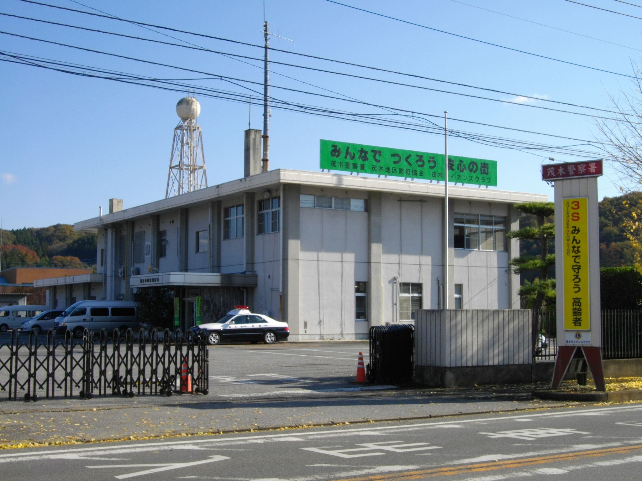 Motegi Police Station